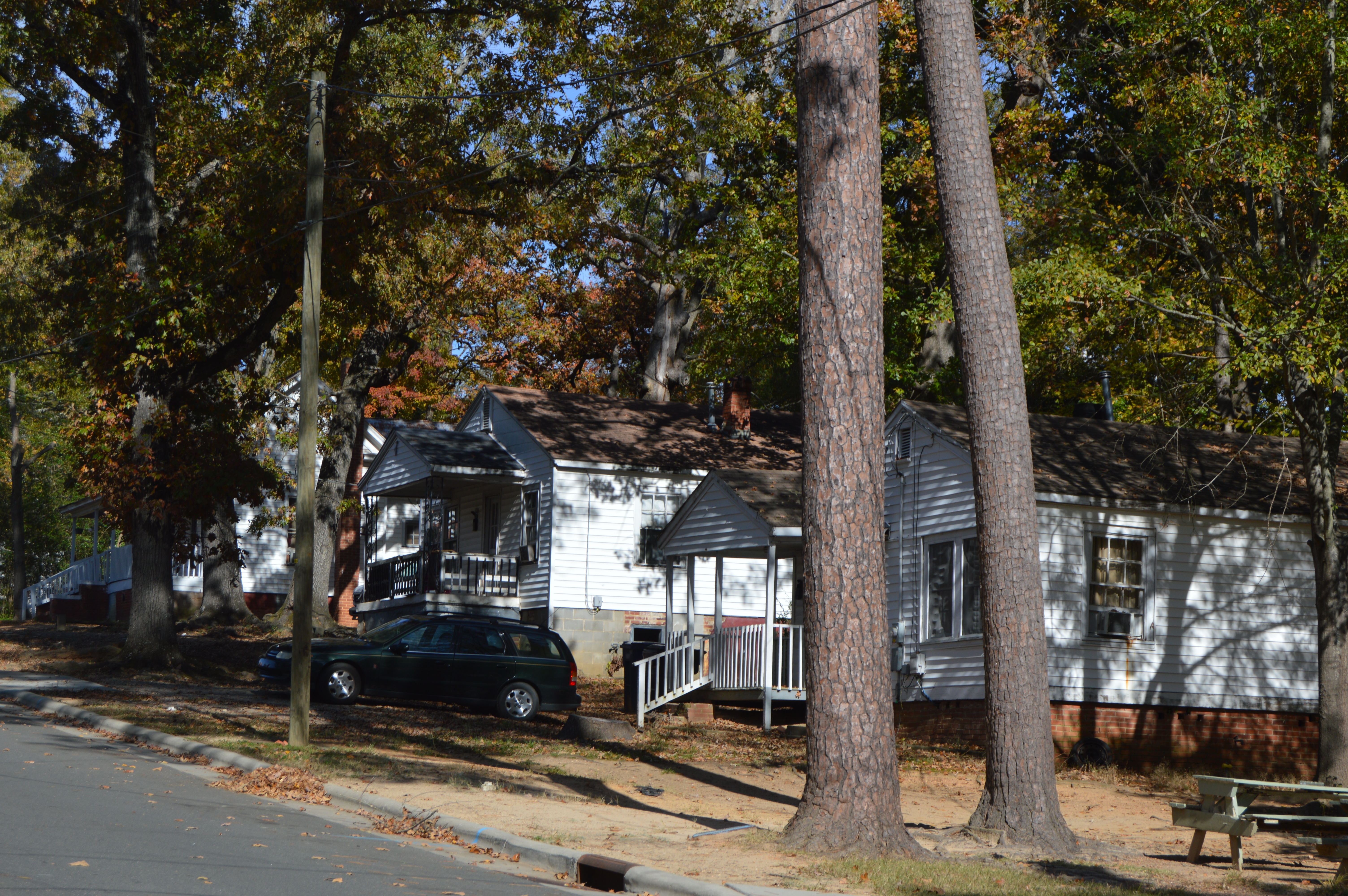 Houses on the eastern side of Fifth Street north of Maple Avenue in Sanford, North Carolina, United States. This block is part of the East Sanford Historic District, a historic district that is listed on the National Register of Historic Places.